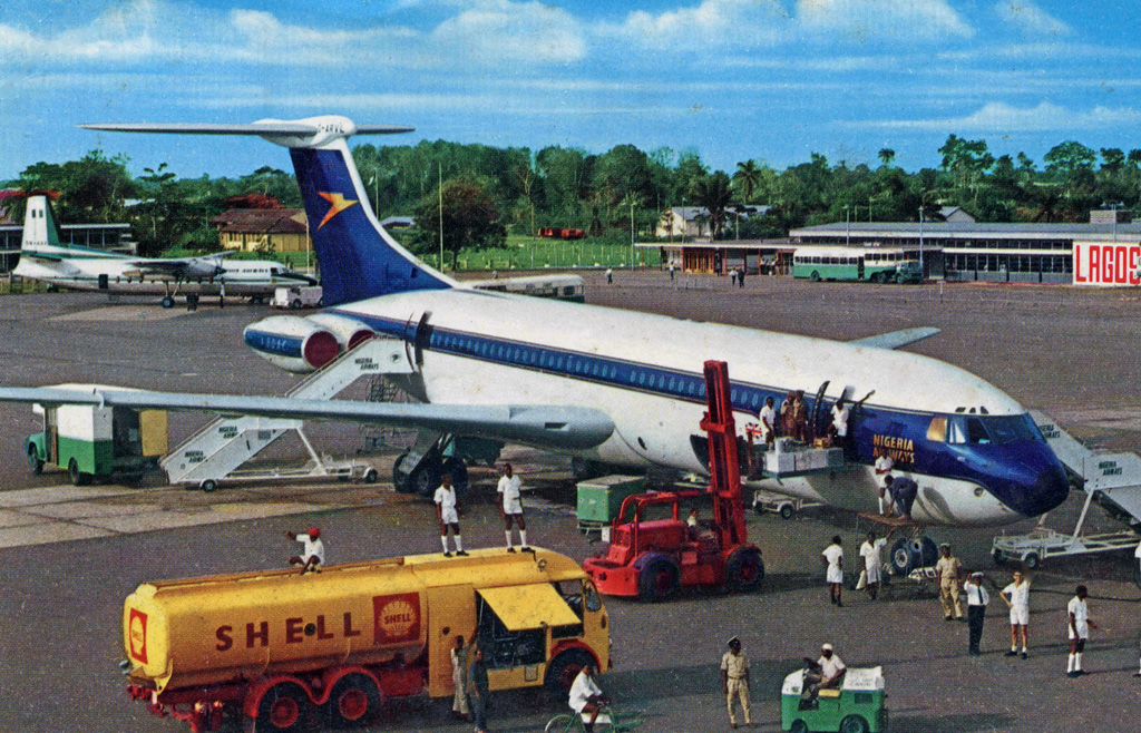 Ikeja Airport, Lagos, in 1969. International terminal (right). Domestic terminal (left). Nigeria Airways Vickers VC-10, leased from BOAC, in foreground.